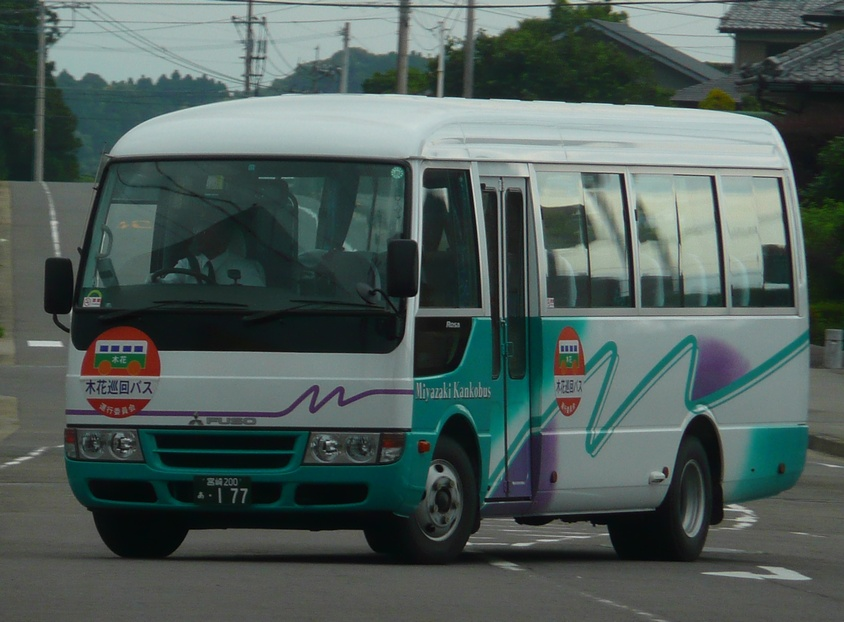 Kibana District Community Bus (Miyazaki City, Japan)